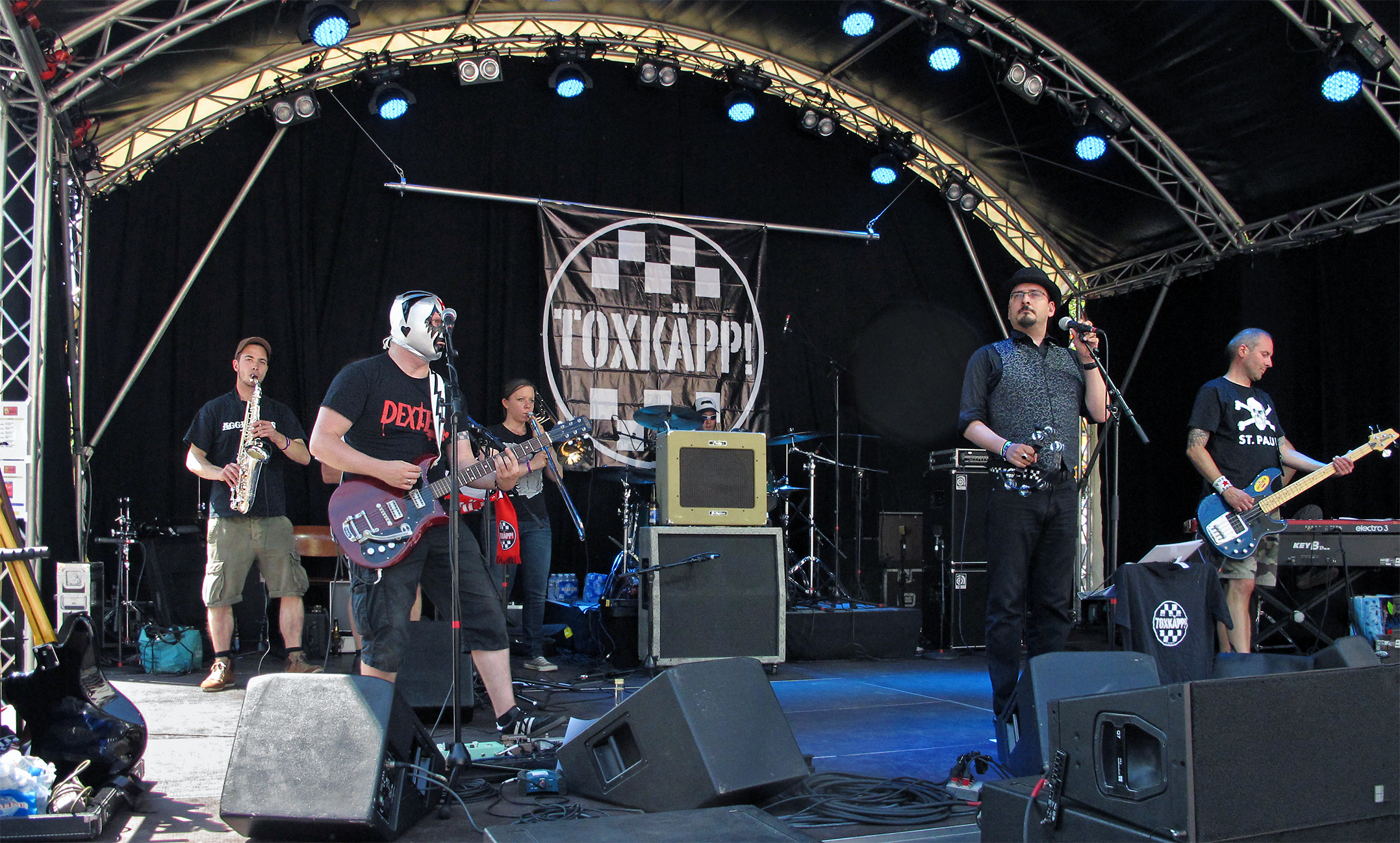 Band Toxkäpp! at "Rock um Knuedler" 2013. Luxembourg